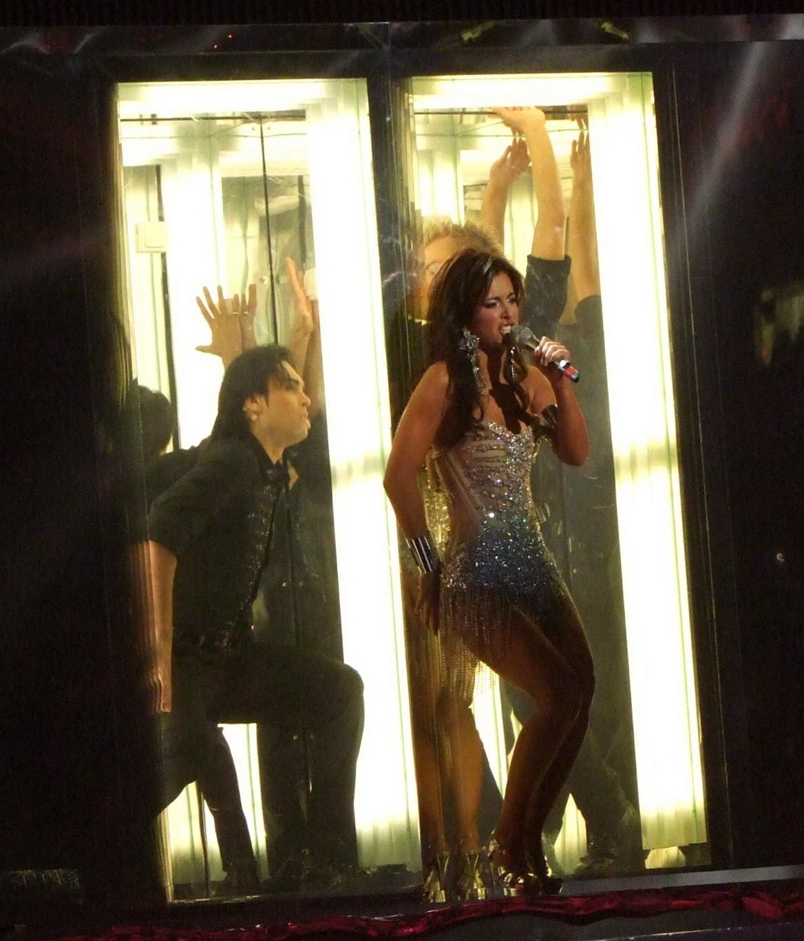 Ani Lorak (Ukraine) performing Shady Lady at second semi-final, Eurovision Song Contest 2008 in Belgrade, Serbia, May 22, 2008